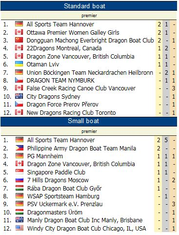 Dragon boat Medal Table 9th Club-Crew World Championships in Ravenna